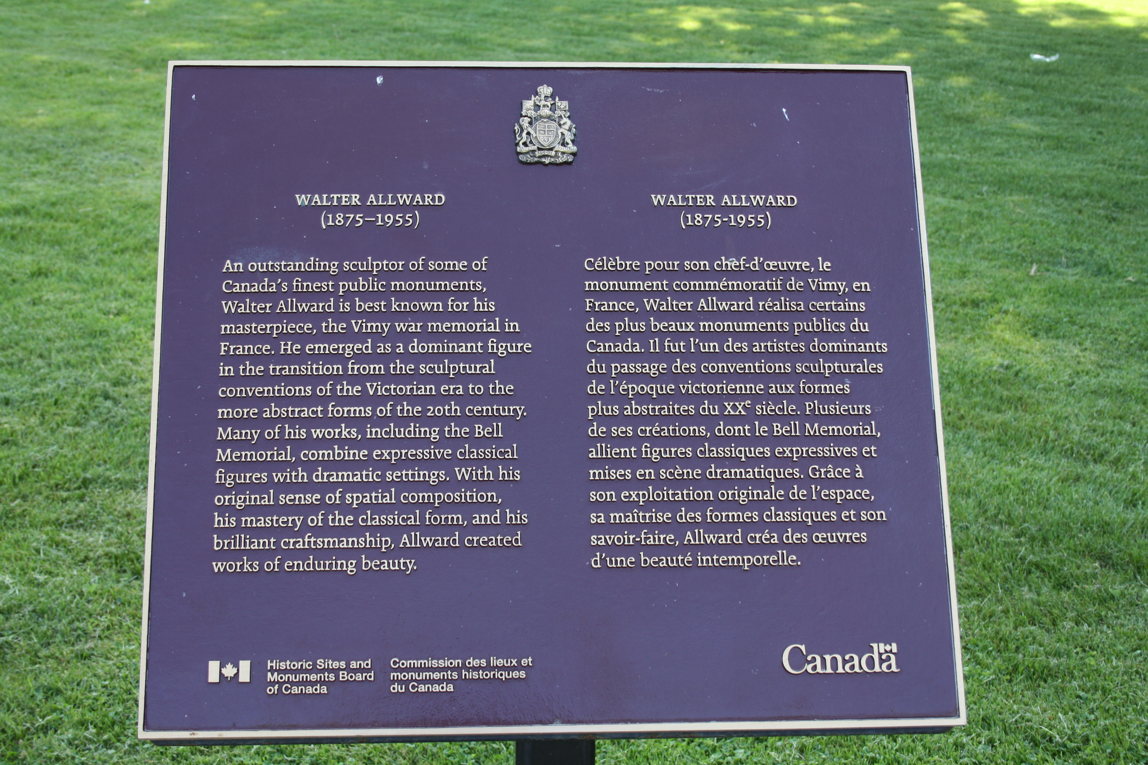 The Bell Telephone Memorial, Alexander Graham Bell Park, Brantford, Ontario, Canada. Created by Canadian sculptor Walter Seymour Allward between 1908 and 1917, and unveiled by the Governor General of Canada before the inventor and scientist, distinguished guests and an audience in the thousands.